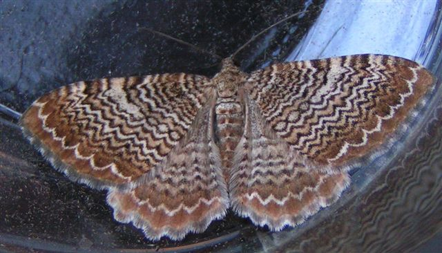 Hydria undulata. Location: Griendtsveen (The Netherlands)